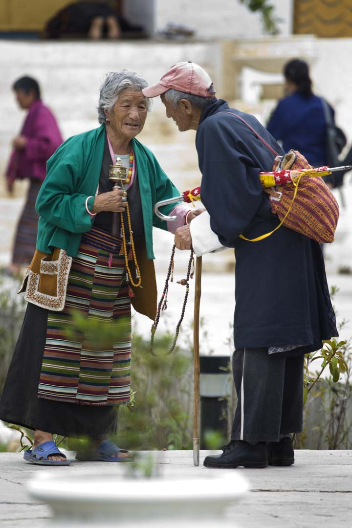 Elderly Bhutanese man and woman